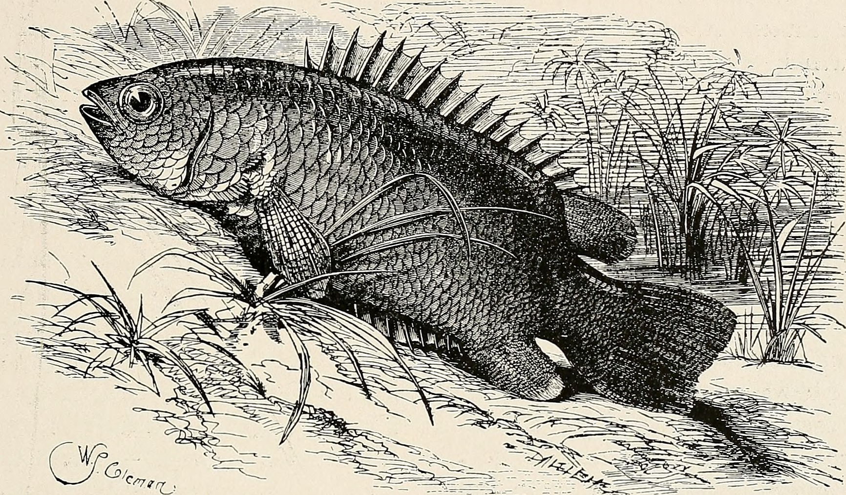 Title: Aquatic life Year: 1917-1918 (1910s) Authors: Bausman, Joseph E Subjects: Aquariums; Fish culture Publisher: Philadelphia : J. E. Bausman Text Appearing Before Image: CLIMBING PERCH ' WALTER LAKTNOT BRIND, F. Z. S. Text Appearing After Image: Climbing Perch (Anabas scandens) Back in 1900, before there had been any extensive importations of exotic fishes, I made the acquaintance of Ana- bas scandens, the CHmbing Perch. Our introduction took place in the store of Fred Kaempfer, Chicago's leading pet- stock dealer. The fish had been sent to Chicago by Otto Eggling, of New York City. Eggling had a Lascar sailor on a British tramp steamer plying between Calcutta and New York, who brought "muchli" (fishes) with him. The Climbing Perch, and incidentally it is not a pierch, was known and com- mented upon by travelers more than a hundred years before I possessed a pair. Lieutenant Daldorf, of the Danish navy, mentions, in his memoirs of 1797, that he captured it in the act of climbing a tree. He found it with the spiny margin of the gill-covers hooked into the interstices of the bark, and watched while it curled its tail around, thrust its pectoral fins for- ward and pushed ahead. The opercula are remarkably mobile and may be moved outward almost at right angles to the body, and the mere closing, if in contact with an object, is sufficient to pull an average fish forward half an inch. The movements described by Lieutenant Dal- dorf exactly correspond to those I have obesrved when placing this fish on the ground and out of water. In the instance described by the naval officer it seems to me quite possible that a fallen trunk of a tree, partly submerged, in a pond in process of drying up, as so often happens in India, had afforded the fish an easy